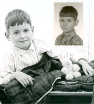 Successfully fighting mumps during summer camp. July 1971, 7-year old boy with mumps Netherlands (Nieuwvliet-Bad, Zeeuws-Vlaanderen, kinderkamp "De Pinksterblom"); March 1972, same kid at 8, mumps gone, face back to normal proportions.